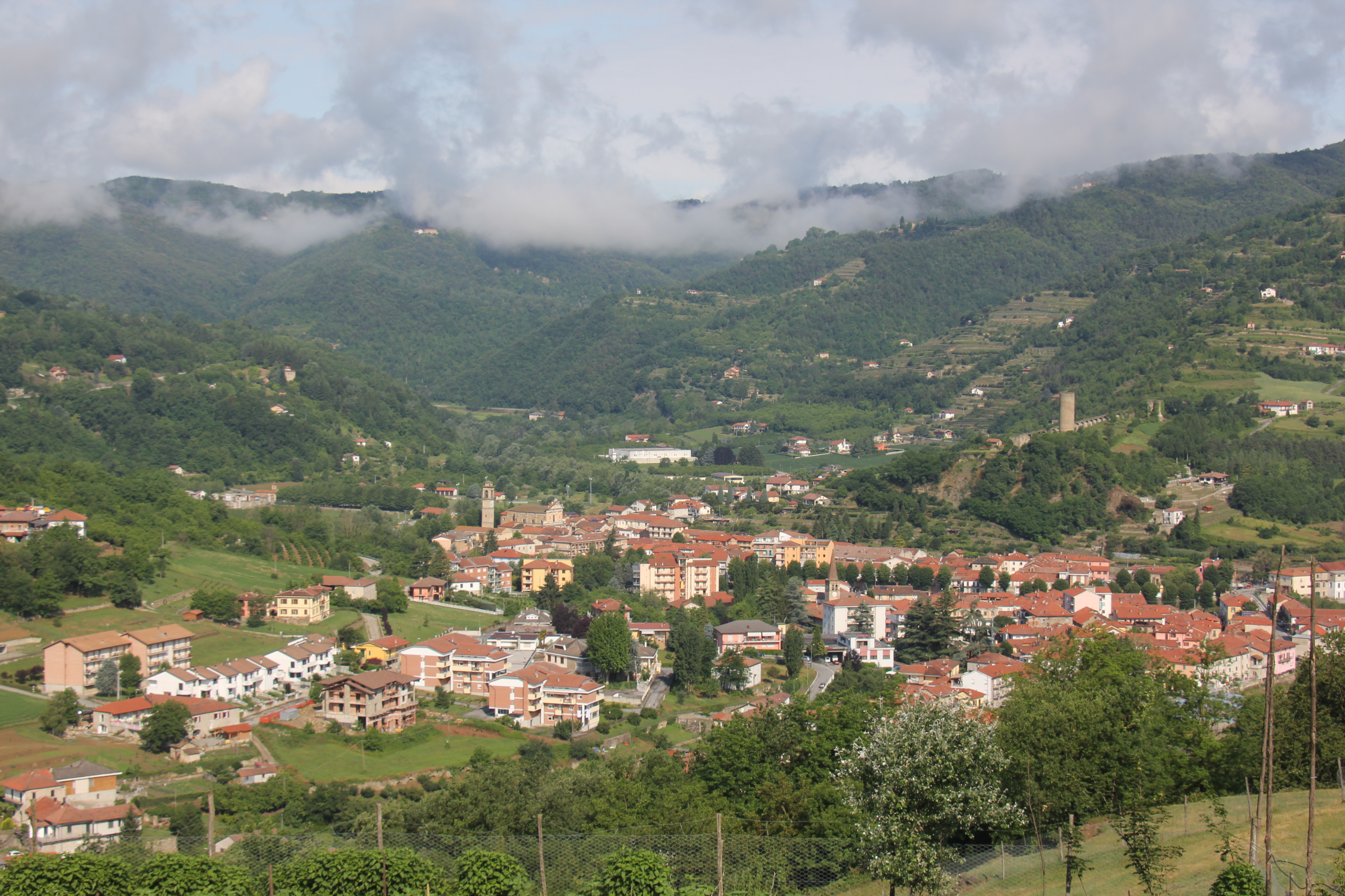 Cortemilia, Italy